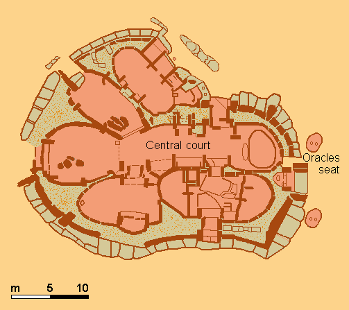 Map (rough) of Hagar Qim, Malta, own work composed from various mapreferences